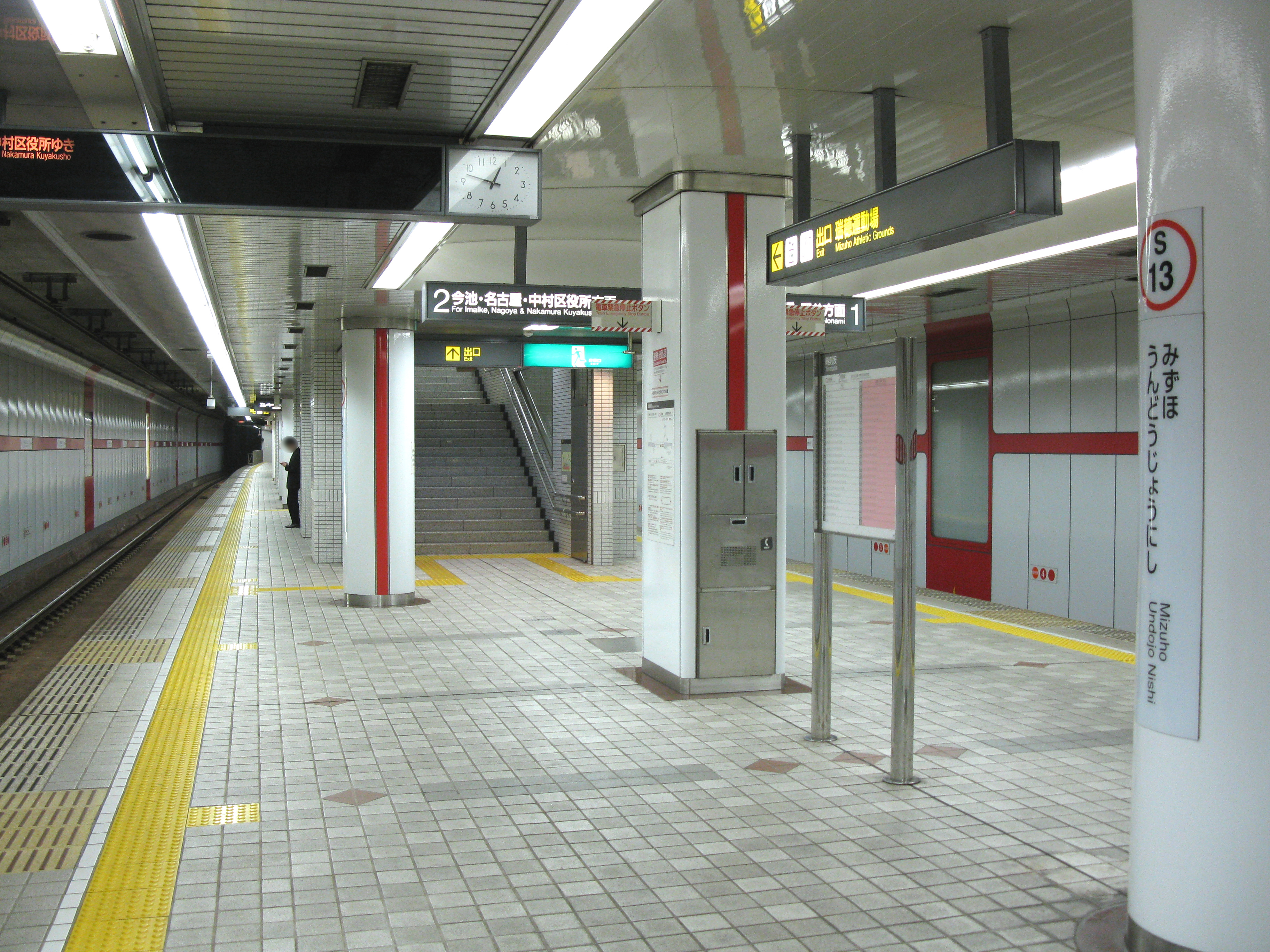 Mizuho Undōjō Nishi Station platform (Nagoya Municipal Subway Sakura-dōri Line)